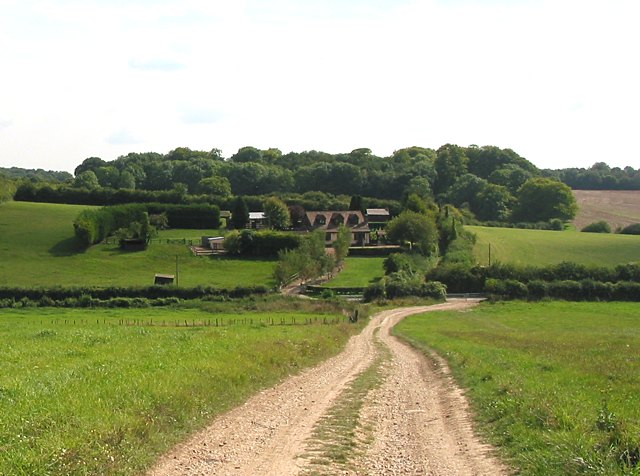 Pilgrim's Trail approaches Lower Baybridge Lane. Looking SSE.